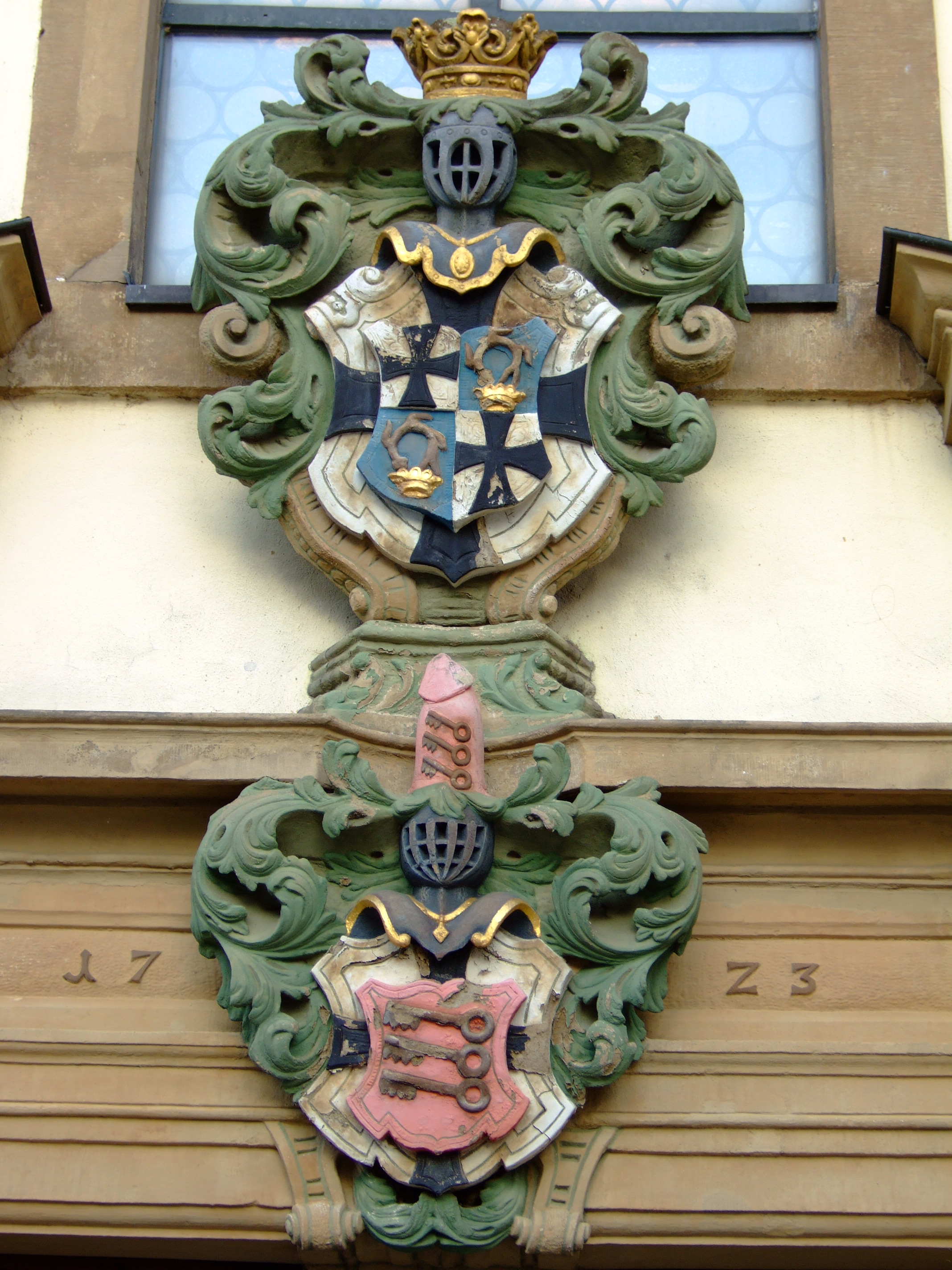 Coat Of Arms over the portal of the Church "St. Pankratius", Degmarn, Germany